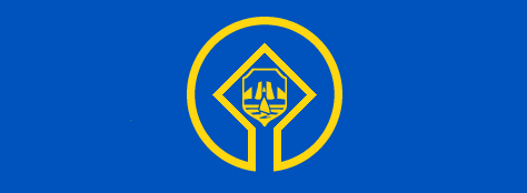 Flag of city of Ohrid, Republic of Macedonia.